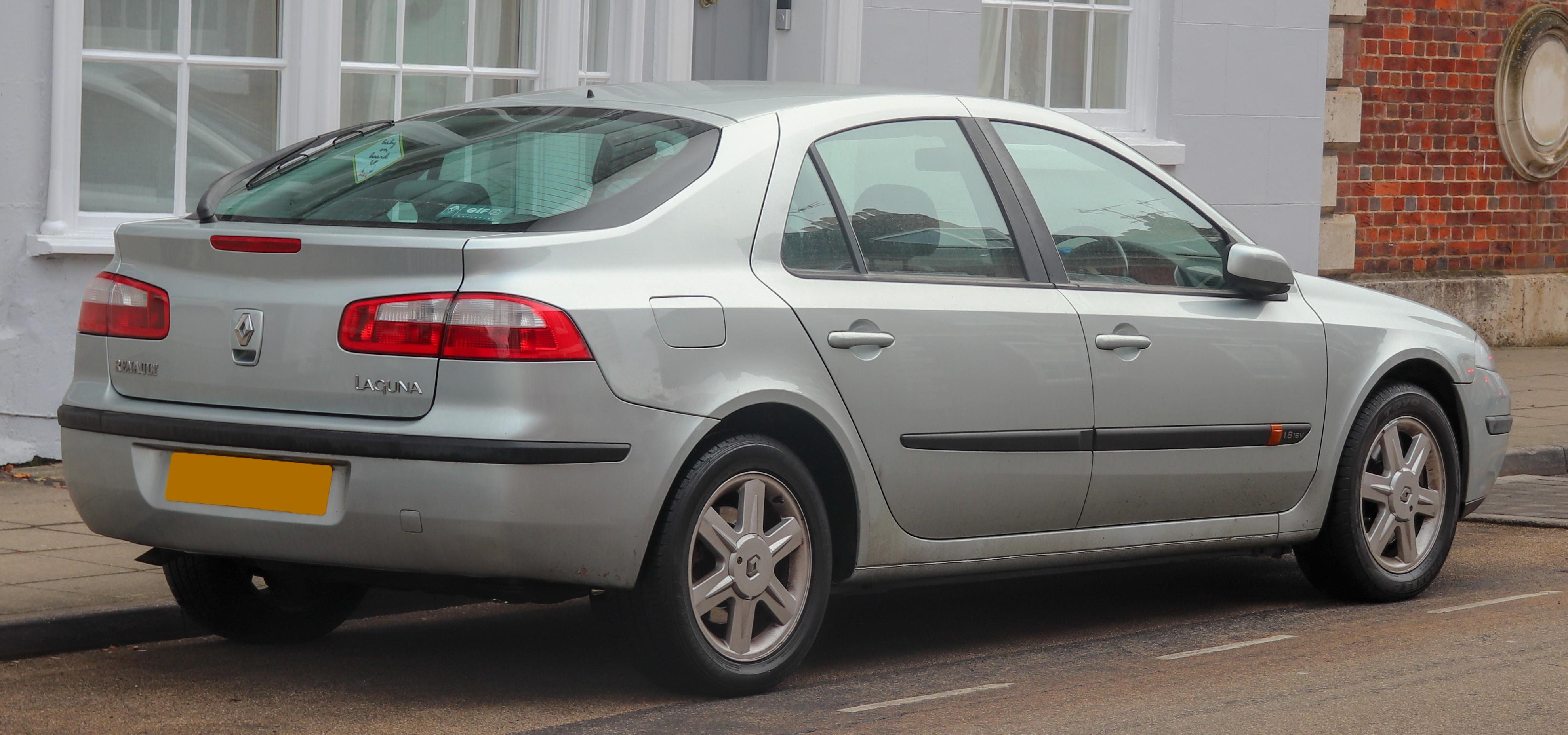 2003 Renault Laguna 1.8 Rear Taken in Warwick